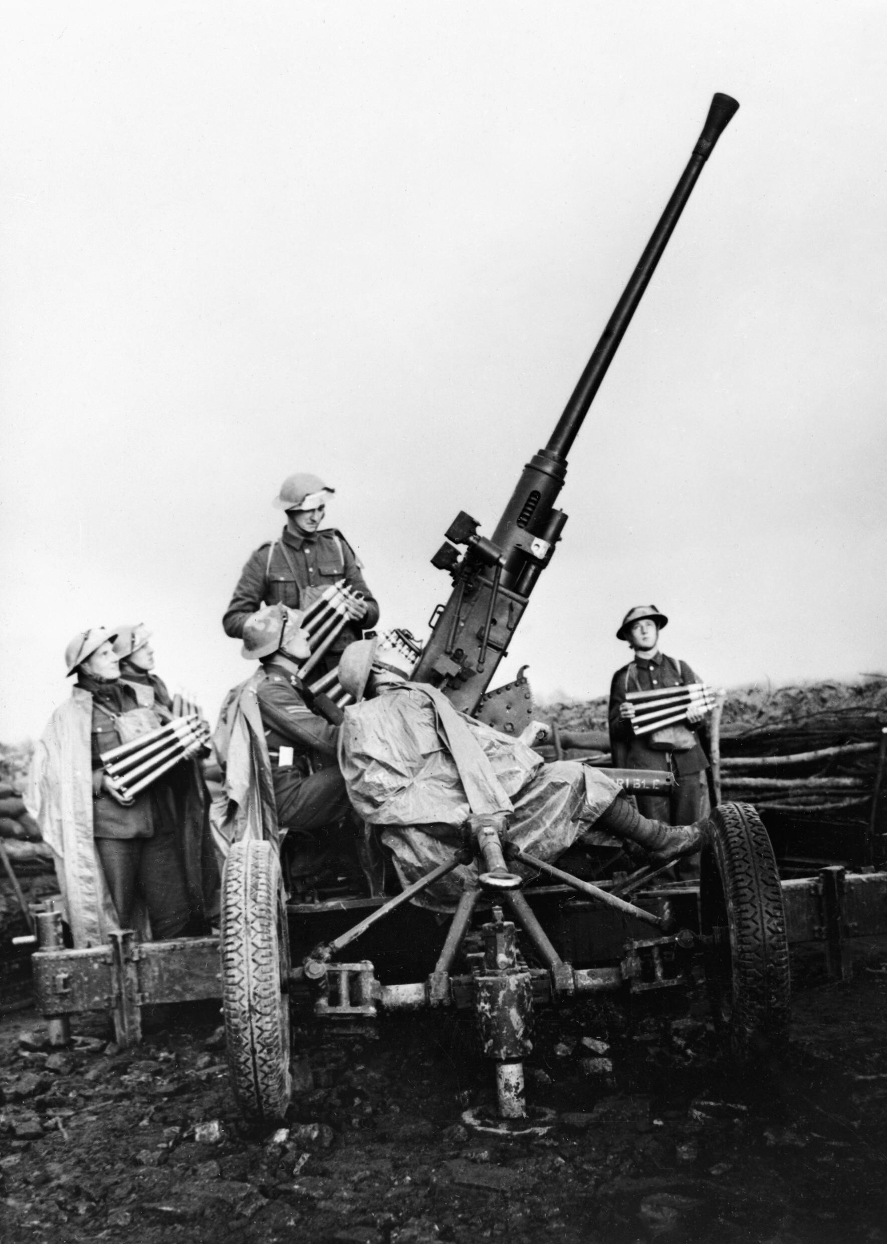 A 40mm Bofors anti-aircraft gun and crew near Douai, France, November 1939. A 40mm Bofors anti-aircraft gun and crew near Douai, November 1939.